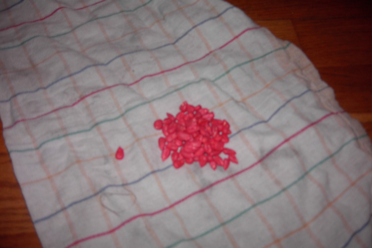 zea mays with fungicid treatment before seeding